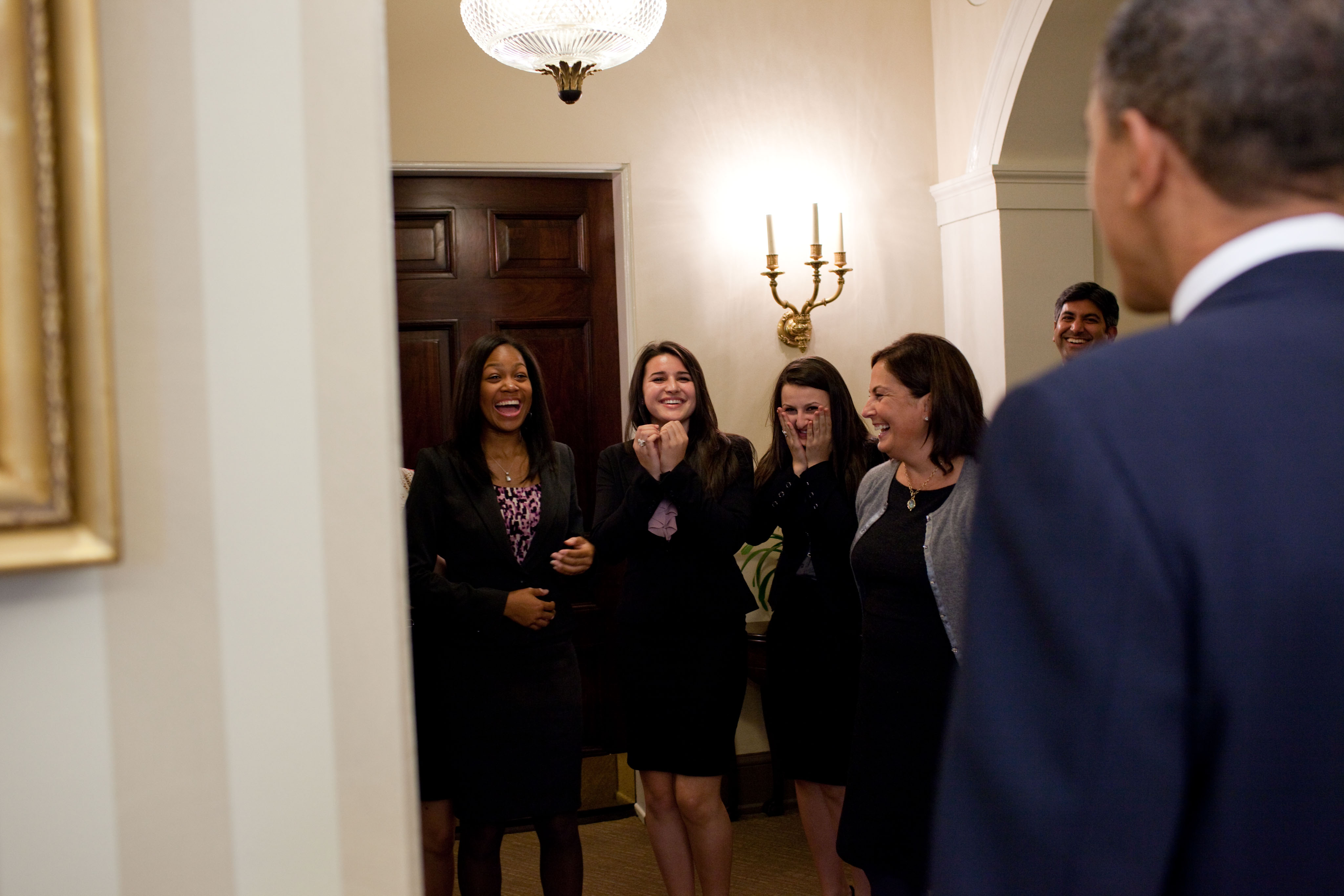 President Barack Obama greets the student finalists of the Network for Teaching Entrepreneurship (NFTE) National Youth Entrepreneurship Challenge as they enter the Oval Office, Oct. 12, 2010. (Official White House Photo by Pete Souza) This official White House photograph is in the public domain from a copyright perspective, so while restrictions such as personality or privacy rights may apply, in general, manipulations are allowed.